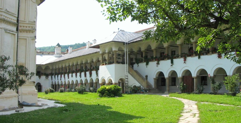 Horezu Monastery, Romania. Cloister